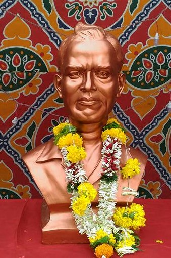 Statue of Comrade at Tavari Pavda Lalbaug, Mumbai, India, where he was killed